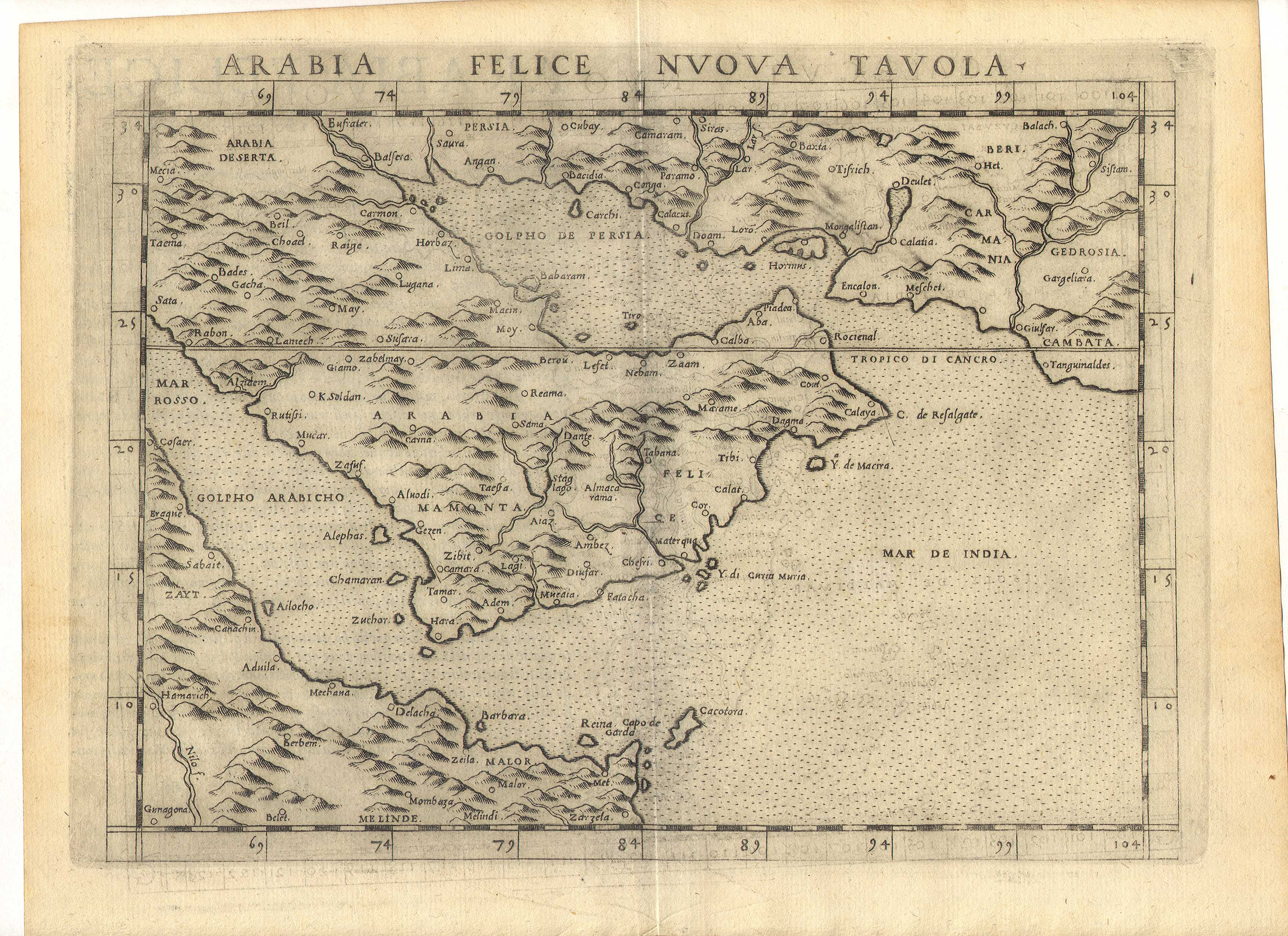 A New Map of Arabia Felix (Arabia Felice Nuova Tavola), depicting the area of Ptolemy's 6th Asian Map with new information Venice FIRST EDITION 1561 SIZE 18.0 x 24.7 cms TECHNIQUE Copper engraving